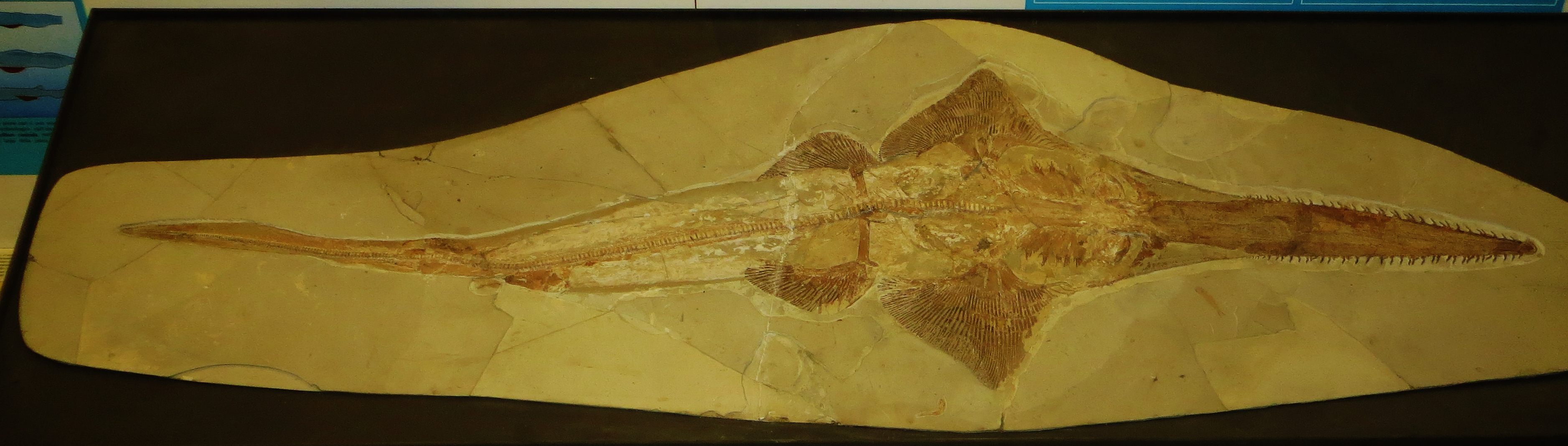 Fossil of Libanopristis. Took the picture at Museo di Storia Naturale, Milano